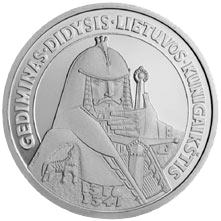 50 litas coin issued to honour Gediminas, the Grand Duke of Lithuania (From the series "The Rulers of Lithuania") Silver Ag 925 Quality proof Diameter 34.00 mm Weight 23.30 g The words on the edge of the coin: IS PRAEITIES TAVO SUNUS TE STIPRYBE SEMIA* (FROM THE PAST LET YOUR SONS DERIVE THEIR STRENGTH) The designer of the coin is Antanas Zukauskas Issued 1996 Minted 6,000 pcs Distribution terminated 2001 Distributed 4,421 pcs The coin was minted at the state enterprise Lithuanian Mint.